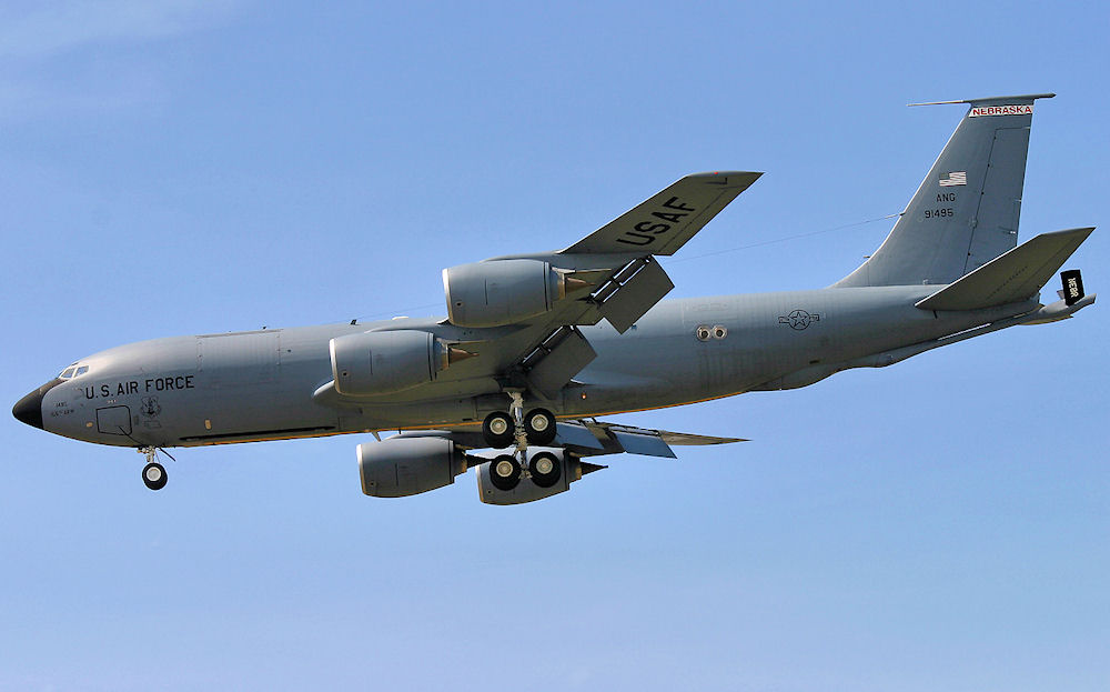 173d Air Refueling Squadron - Boeing KC-135R Stratotanker 59-1495